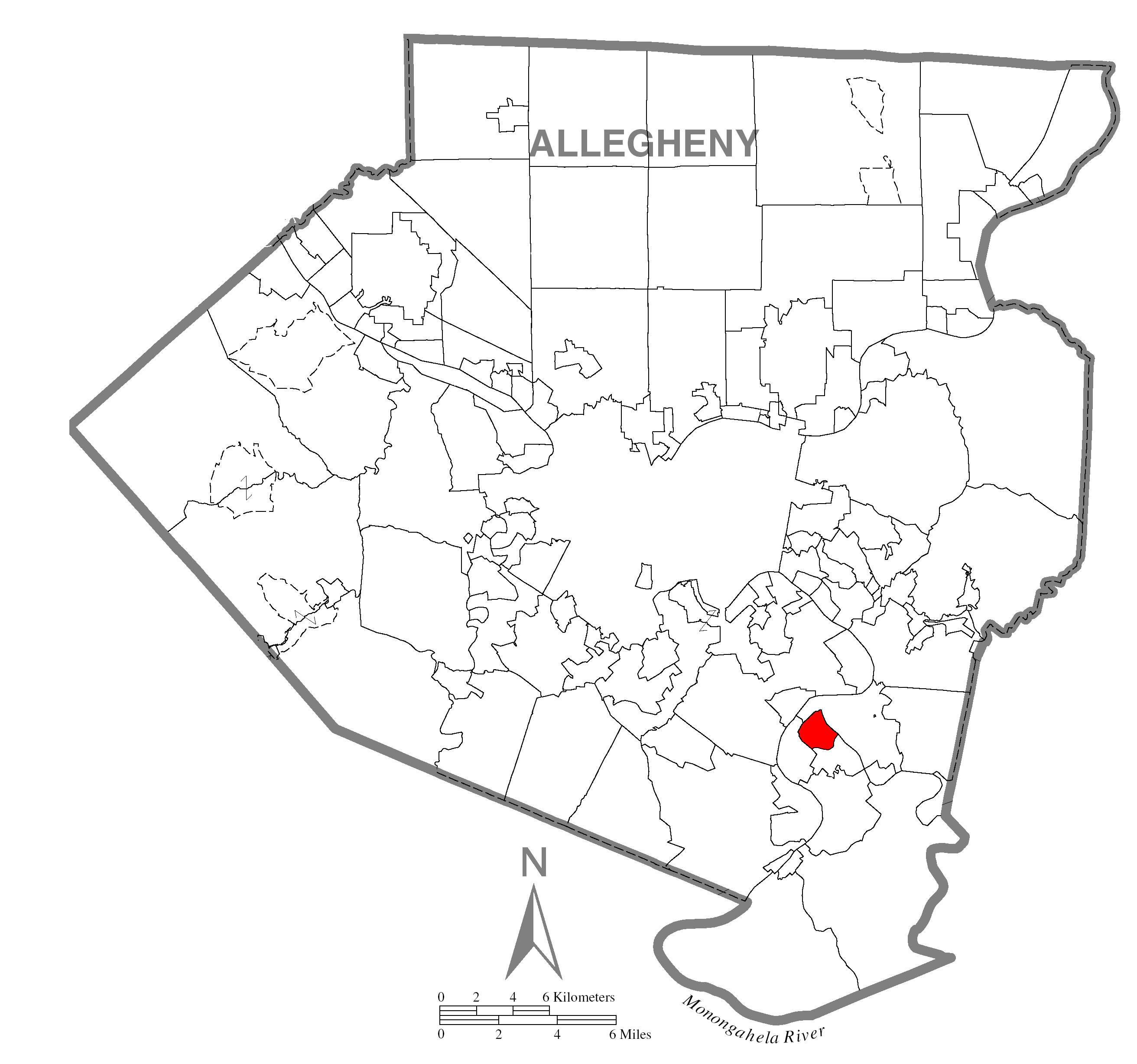 A map of Allegheny County showing Port Vue, Pennsylvania (alternate) highlighted on the map.